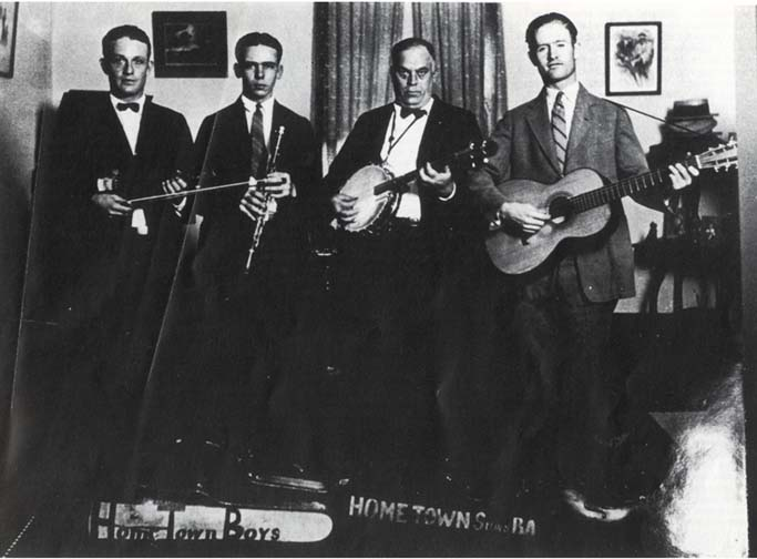 A picture of the Hometown Boys, a old-time band in Atlanta of the 1920s at WSB studio. The members pictured are Clayton McMichen (fiddle), Robert "Punk" Stephens (clarinette), Bob Stephens (banjo), unknown (guitar). Bob and Robert Stephens are father and son. Lowe Stokes plays here the guitar, although he is better remembered as a fiddler.